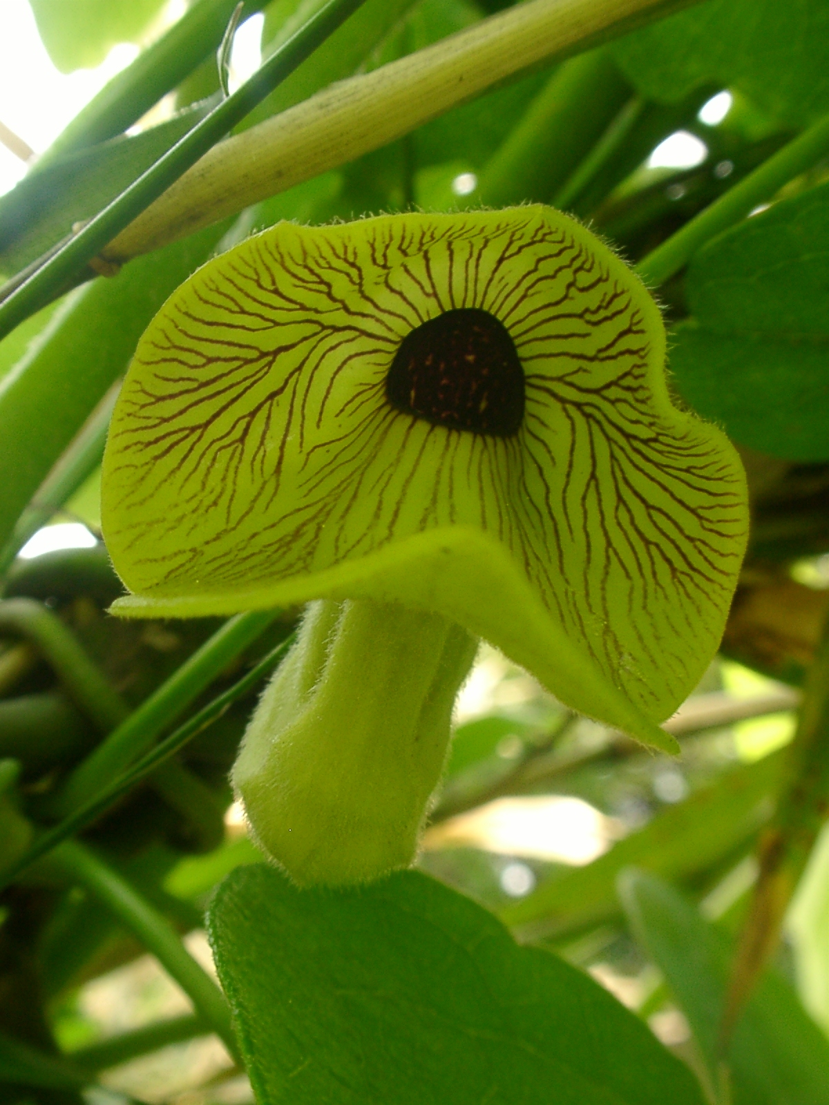 Aristolochia kaempferi 's flower, Odawara-city, Japan.